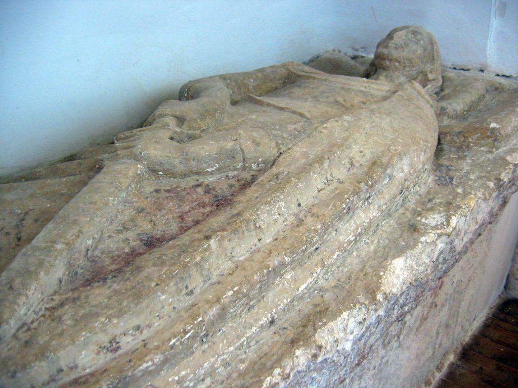 Grave of one of the Muño de Saldaña relatives, founder of the Church of San Pelayo in Arenillas de San Pelayo (Palencia, Castile and León) . It is splendid other than monastery "Dotado in 1132 by relatives of Muño Saldaña, which made him free in 1159 and spent in 1168 to the premostratenses of Retuerta". This Tomb lies in the right apse of the Church, on one side of the presbytery of the central altar and two niches of half a point along with the founder of the monastery, who presumably would be his wife. The sarcophagus is decorated in his deck with sculpture lying in its owner. Her Gospel under a pointed arch torreado abroad and with Apple in the right hand side. He, with head on pillow, attitude of desenvainar sword, cross-legs, spurs and his dog to the feet.